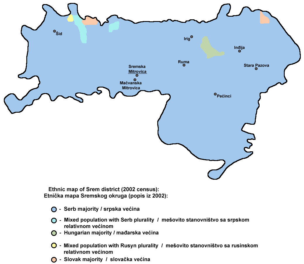 Ethnic map of Syrmia District - 2002 census (data by settlements).